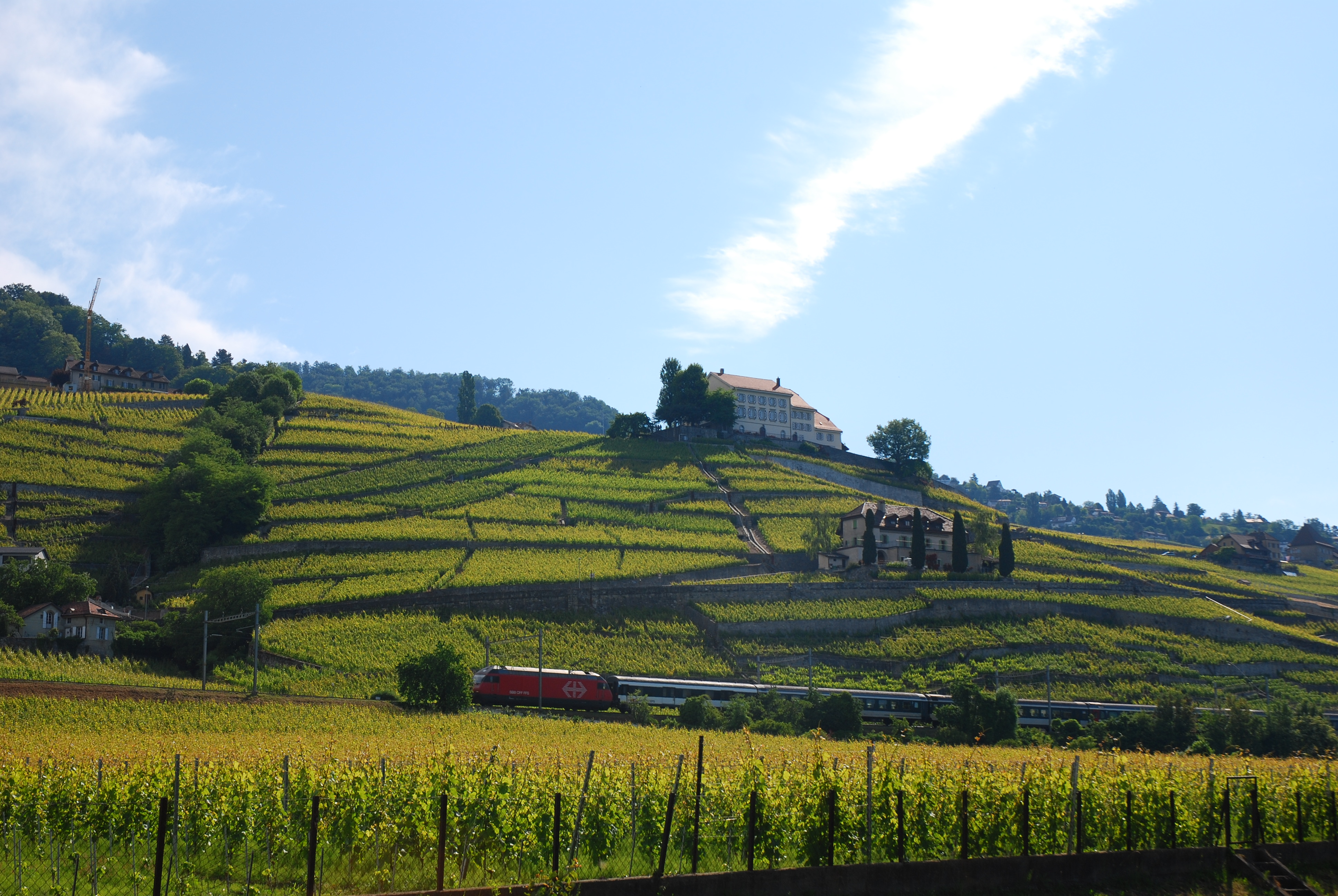 Cully to Lutry railway, Switzerland